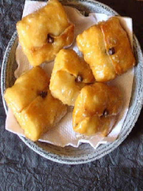 This is an image of a bengali sweet dish "lobongo latika"